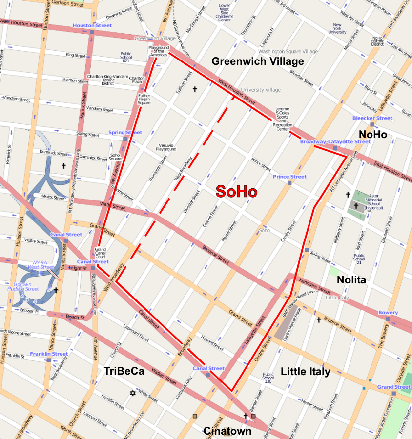 Map of SoHo - Manhattan